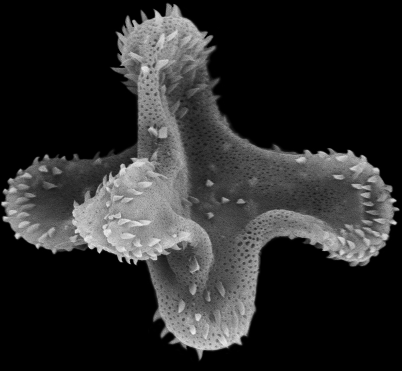 Scanning electron microscope image of Aquilapollenites attenuatus Funkhouser (1961). The specimen is 48µm long, and was recovered from the uppermost Cretaceous Hell Creek Formation in North Dakota, USA.